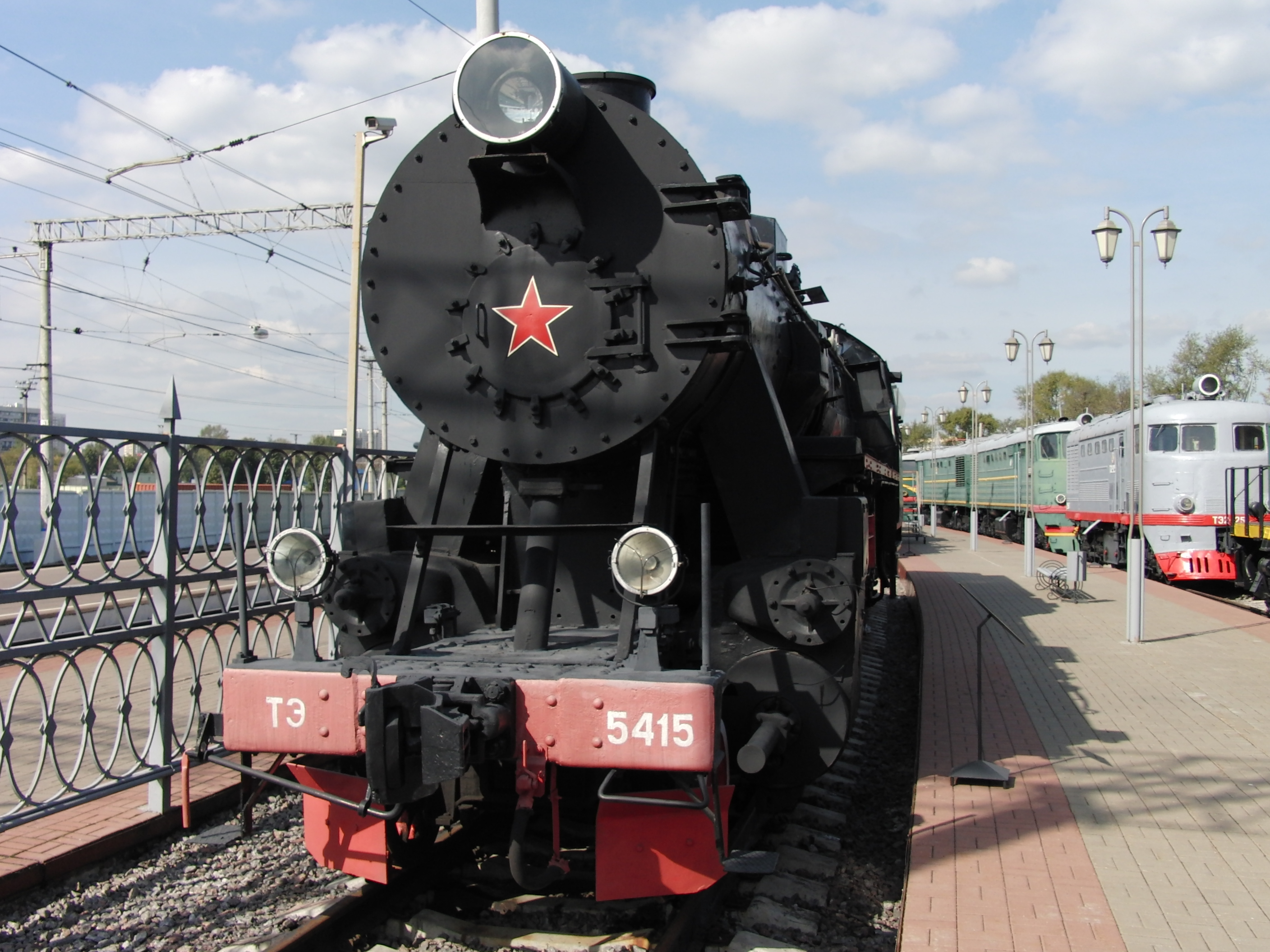 TE (ТЭ) 5415 steam locomotive